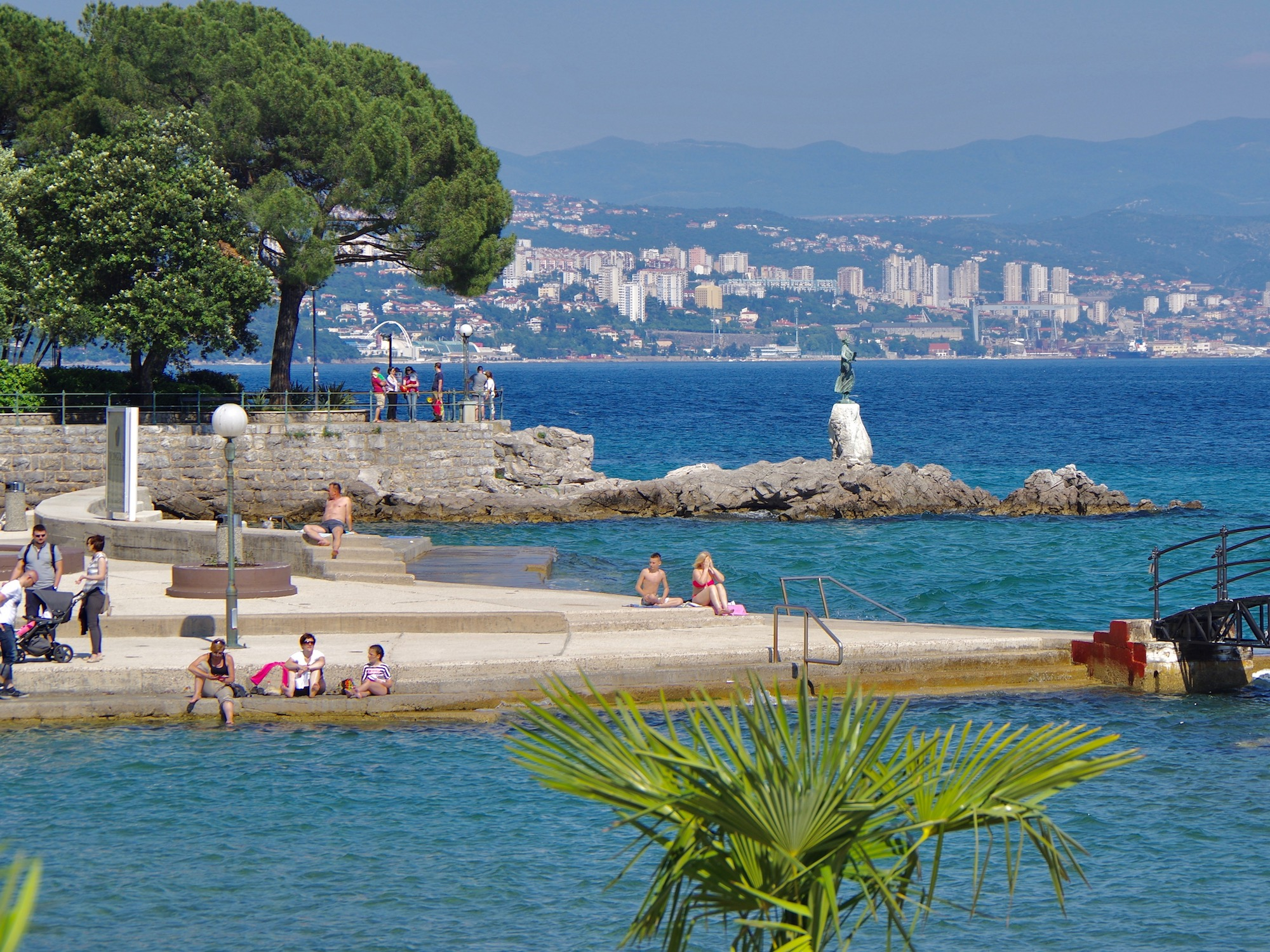 Beach in Opatija with Rijeka city in the background